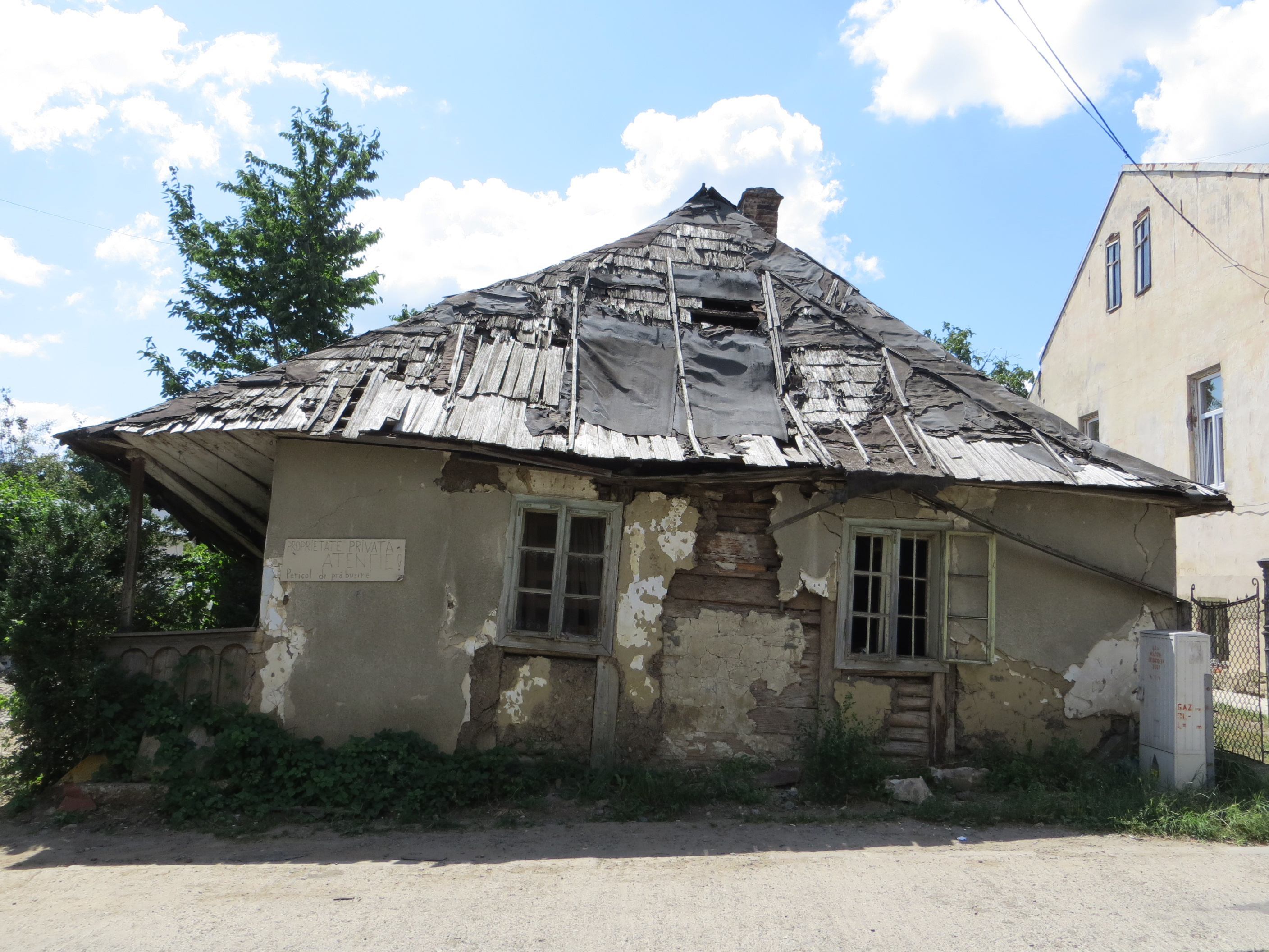 Hopmeier Wooden House in Suceava (Armenească Street, 13).